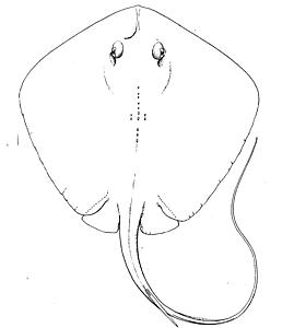 Bluntnose stingray (Dasyatis say)